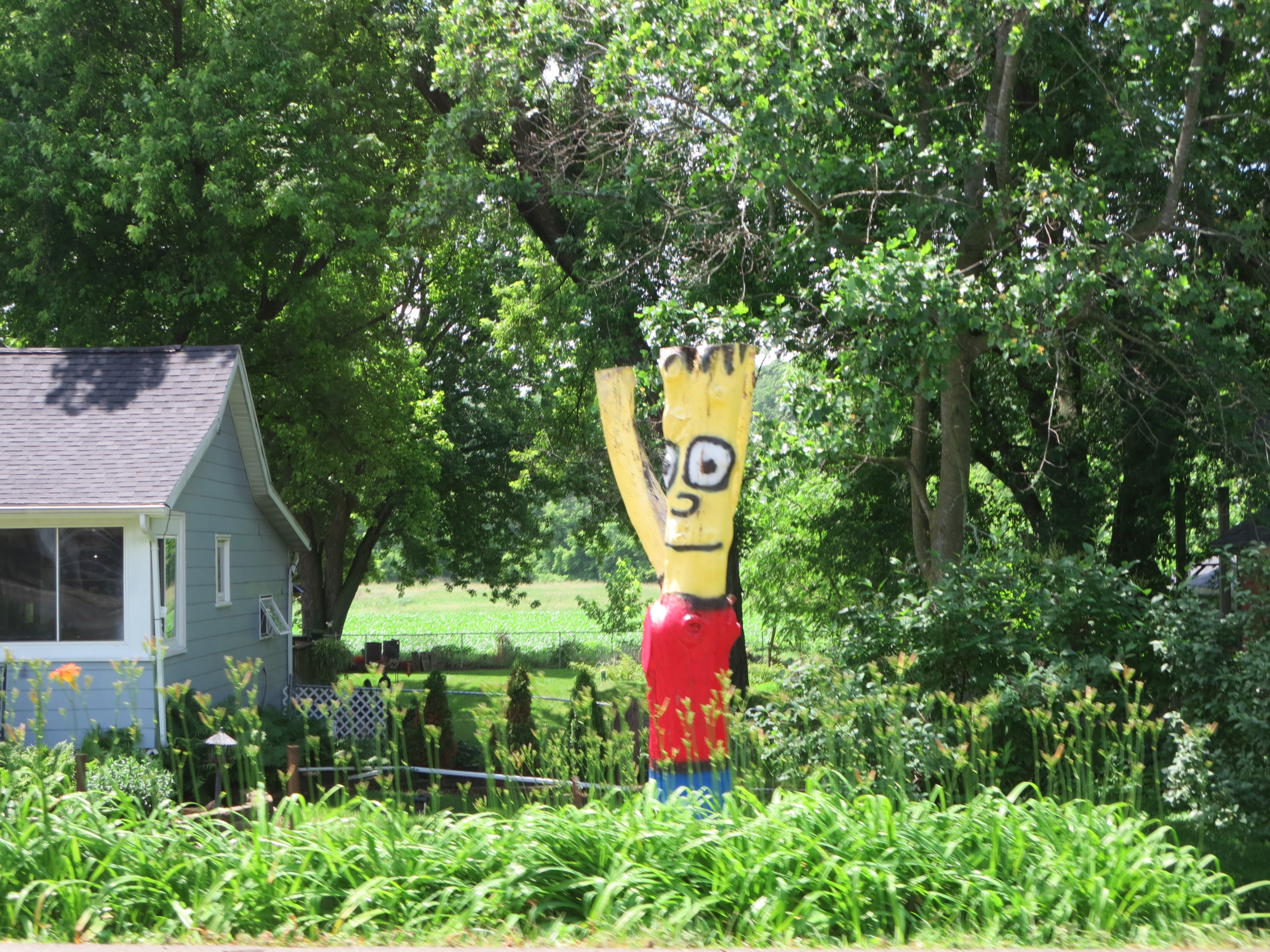 Bart Simpson Tree